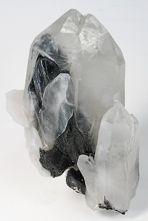 Ferberite, Quartz Locality: Tae Hwa Mine (Taehwa Mine; Dae Hwa Mine; Taewha Mine; Tong Wha Mine; Tae Wha Mine), Neungam-ri (Neung Am-ri; Noungam-ri), Angseong-myeon, Chungju (Chung Won Kum; Chung-ju), Chungcheongbukdo (Chungchong-pukto), South Korea (Locality at ) Size: cabinet, 10.5 x 8 x 5.3 cm Ferberite with Quartz A MAJOR ferberite for this important locale....and, No, this is NOT a super ferberite specimen from the plentiful finds in China, but a much more uncommon KOREAN specimen that came out of the Rolf Wein Collection in Germany, which was dispersed around 2004-2005. What makes it extraordinary is not just its excellence for this locality, and in fact its overall quality by any standard, but also its amazing aesthetics: the large, 7.5-cm ferberite crystal is locked inside gemmy, translucent quartz crystals! Its termination, in fact, extends right up into the crystal on the left side. Ferberite is not typically a remarkably pretty mineral, so the fact that this specimen is so attractive and dramatic overall adds a lot to its existing desirability as a fine locality specimen from one of the most classic localities for tungsten minerals. Ferberite also , I can say, does not seem to occur often as inclusions. I cannot think of another piece I know with similar aeshtetics.